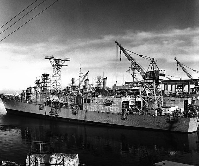 February 1979: San Pedro, Cal. - at Todd-Pacific Shipyard, 70% complete